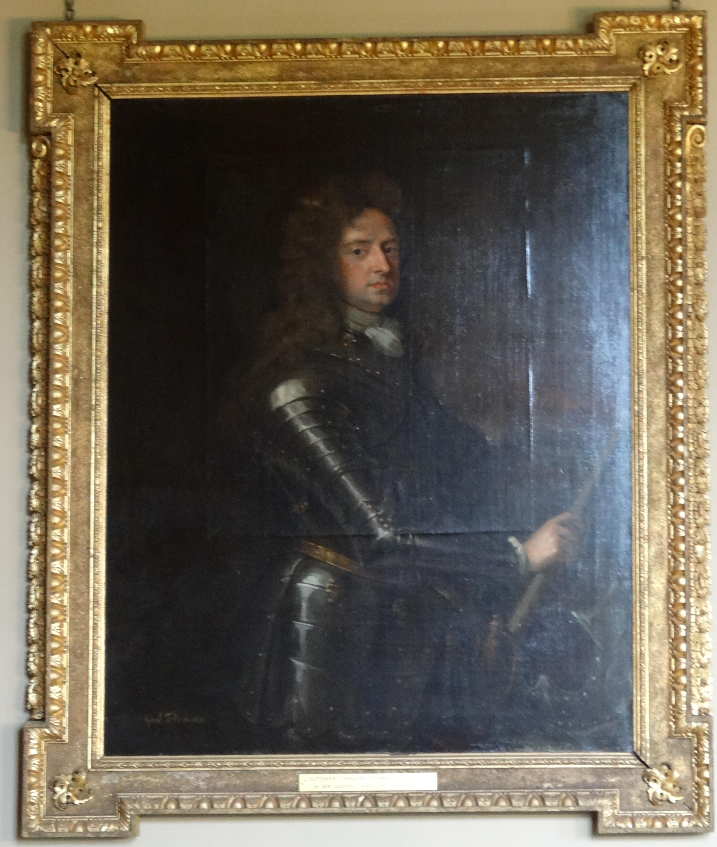 Thomas Tollemache by Godfrey Kneller with thanks to Ham House for allowing photography